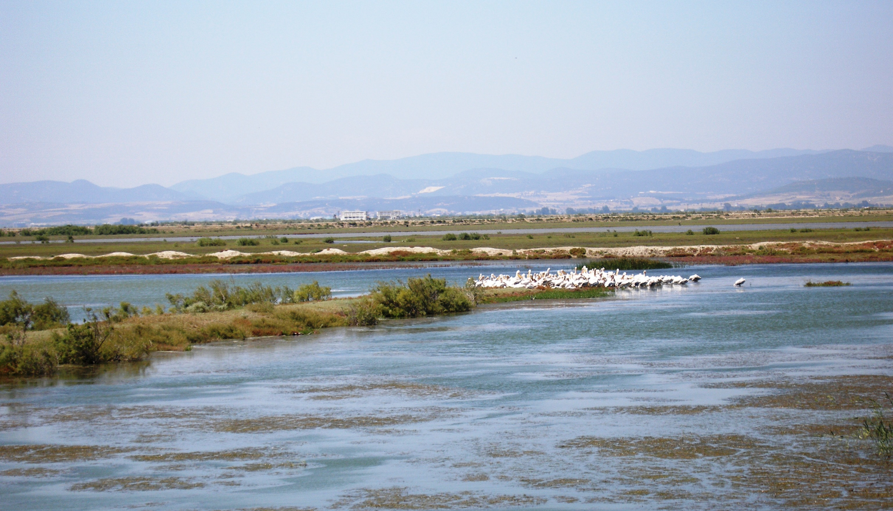 OLYMPUS DIGITAL CAMERA This is a photography of Natura 2000 protected area with ID GR1110006